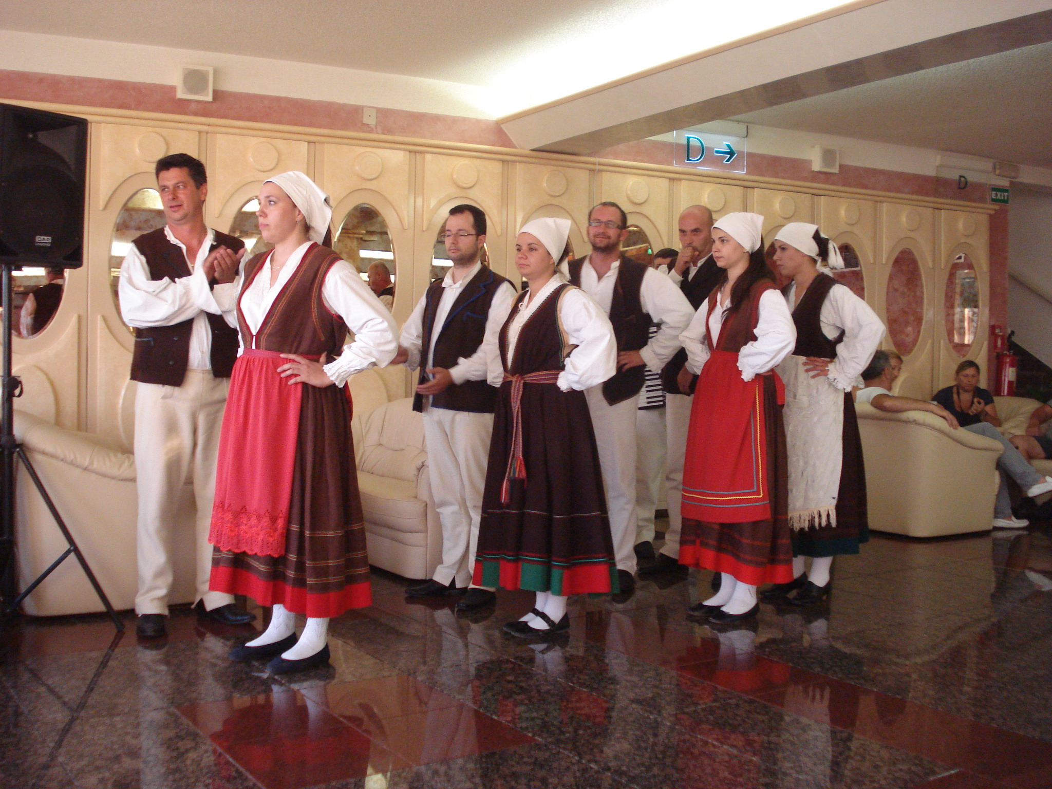 Traditional folk costume of Istria, Croatia - danceHrvatski: Istarska tradicijska narodna nošnja, Hrvatska - ples